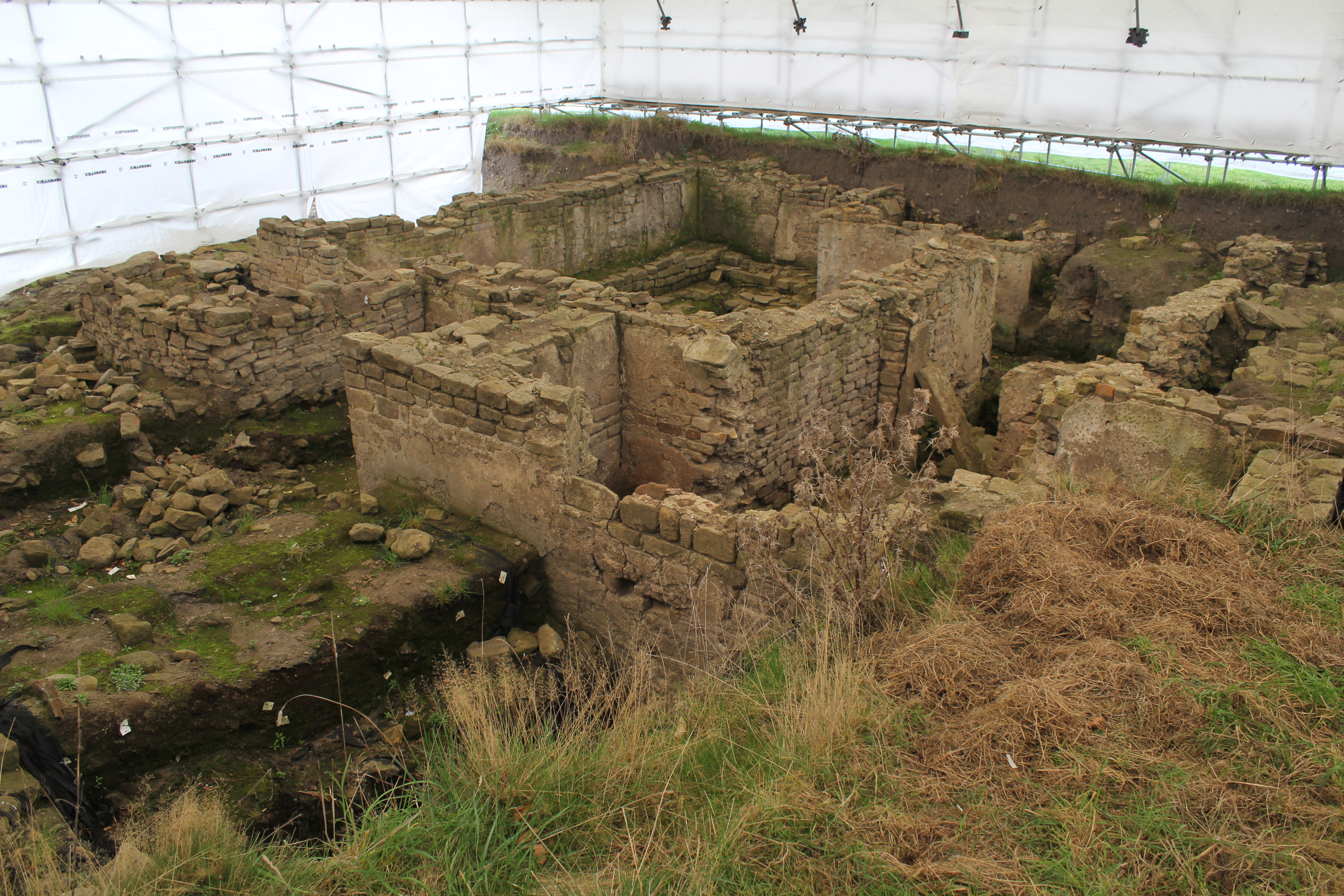 Binchester Roman vicus, March 2017 (15) This file was generated using WMUK's equipment.